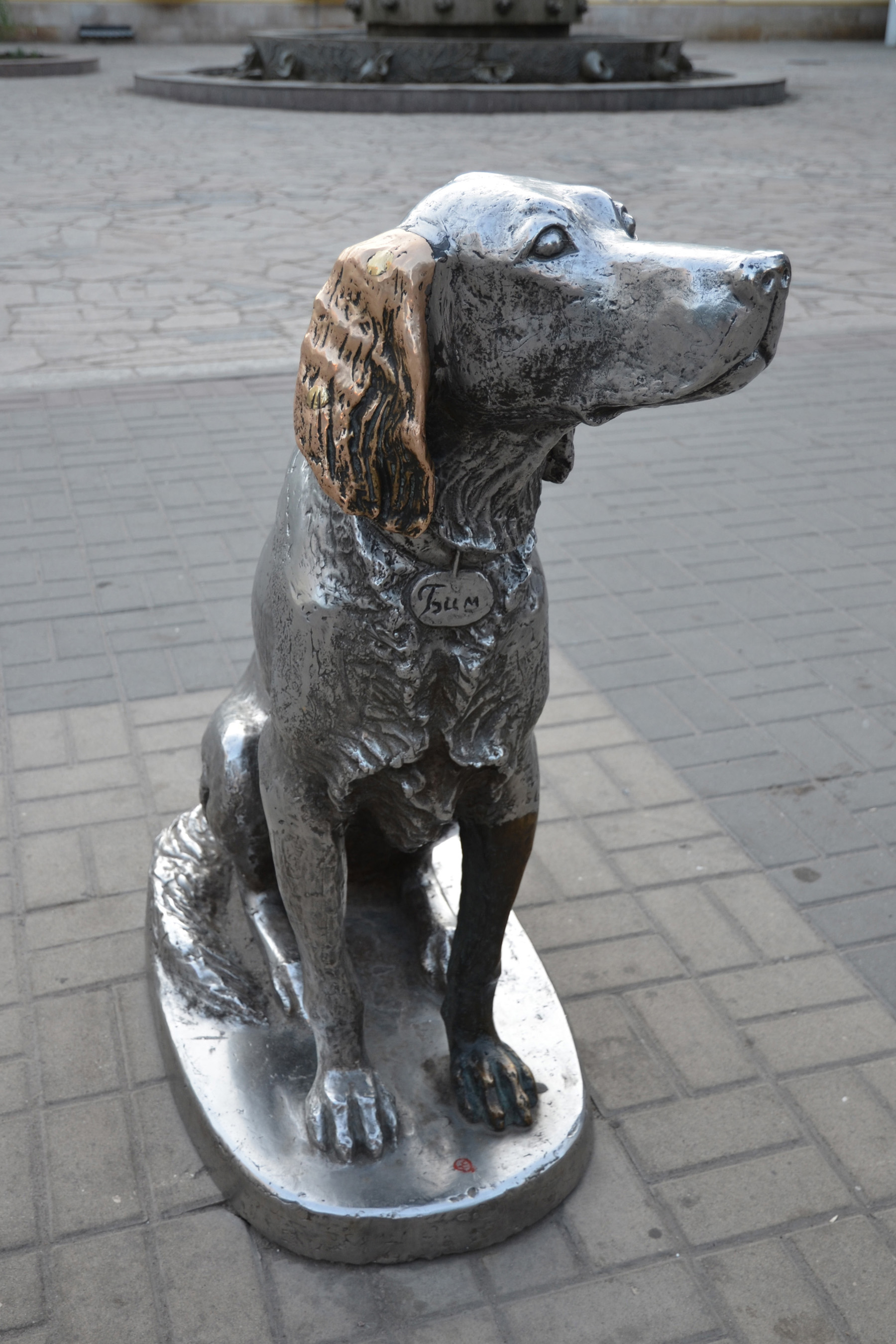 White Bim Black Ear.